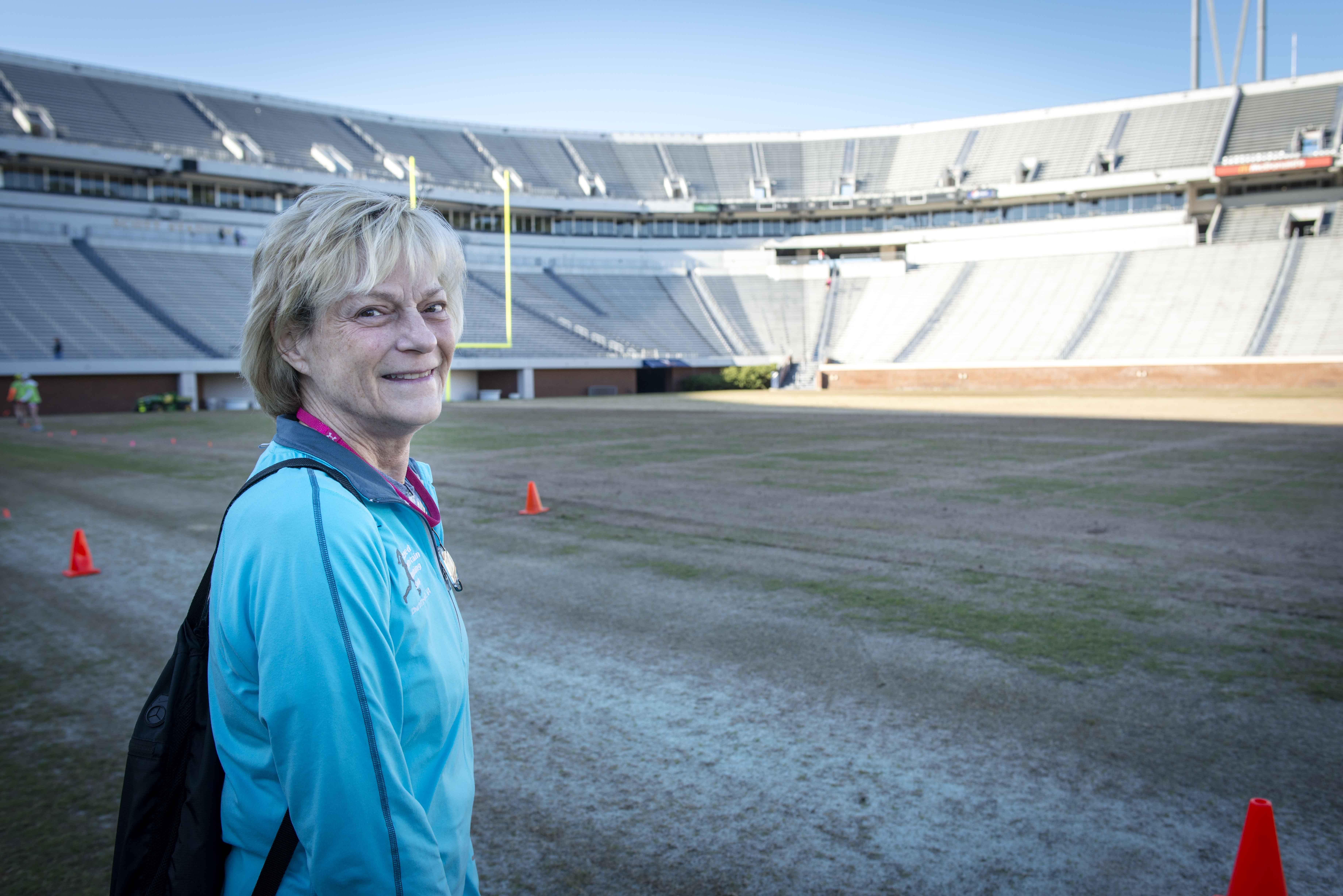 Woman’s Basketball Hall of Fame Debbie Ryan waiting at the finish Line during the 2014 Charlottesville Men’s Four Mile Race